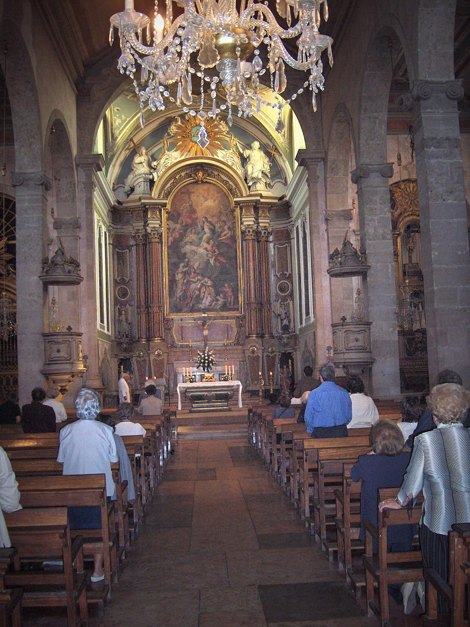 Nave and choir of the Igrejia São Julião; Setúbal, Portugal